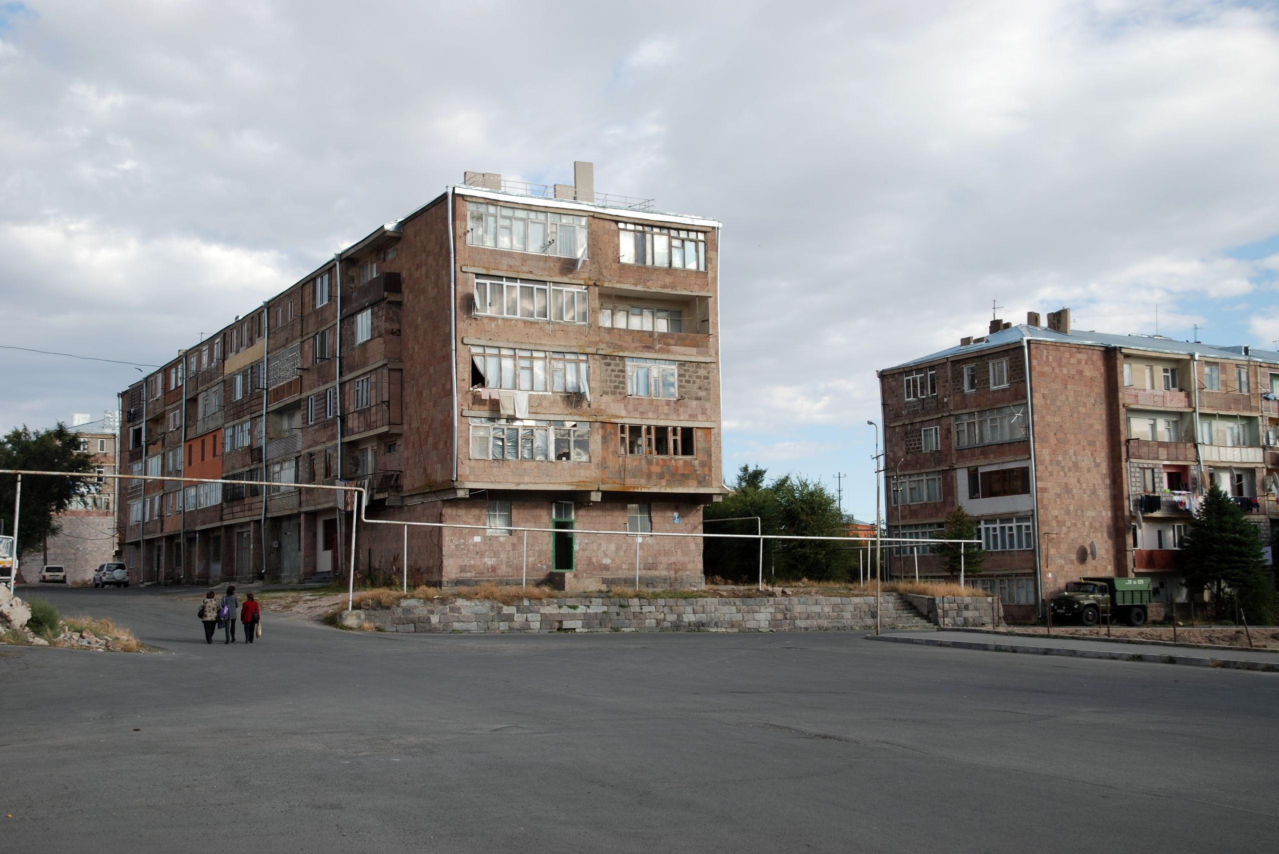 Talin center